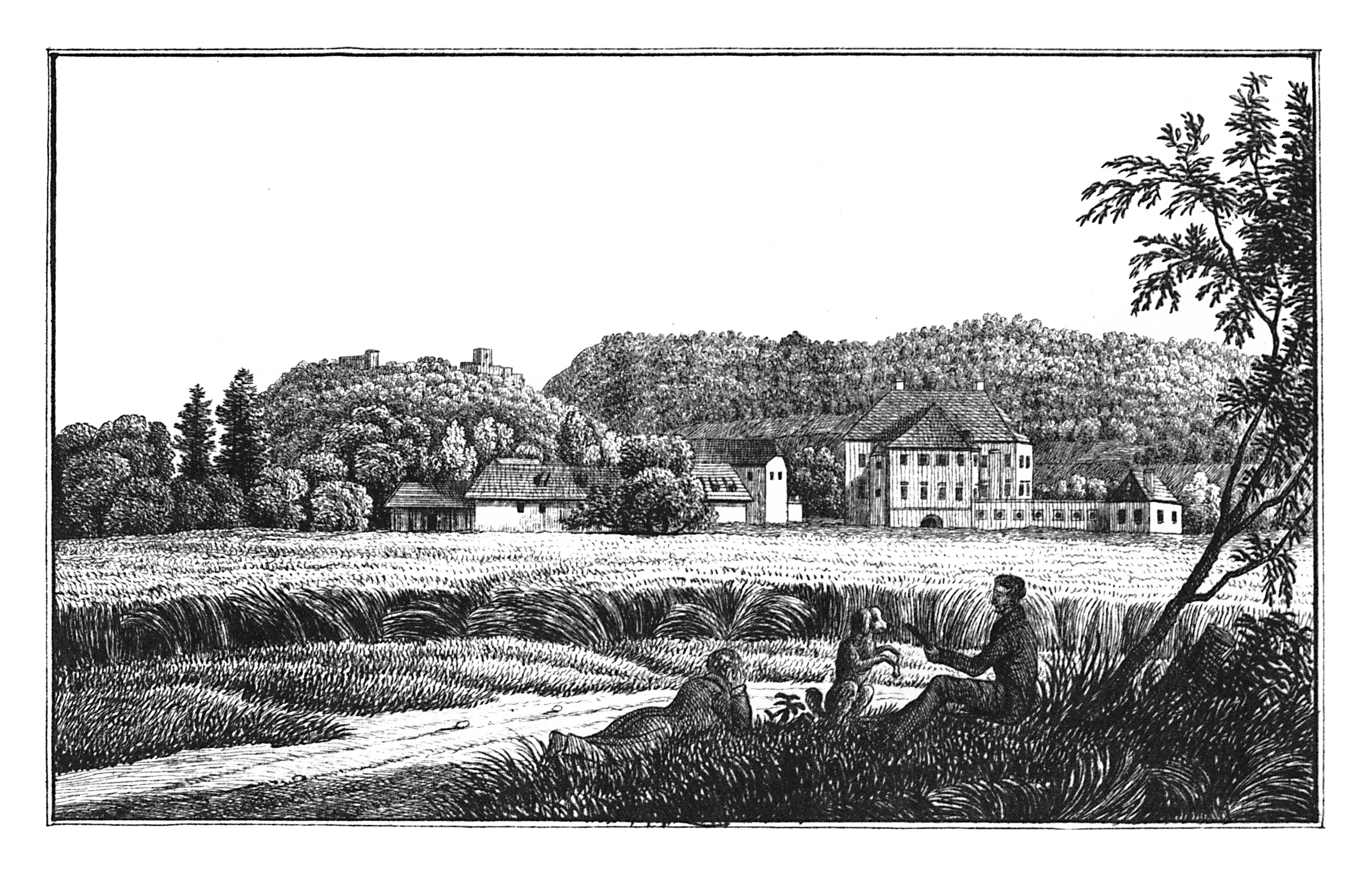 J. F. Kaiser - lithographirte Ansichten der Steyermärkischen Städte, Märkte und Schlösser, Graz 1824-1833 Joseph Franz Kaiser (1786–1859) Alternative names J. F. KaiserDescriptionAustrian printer and editorDate of birth/death 11 March 1786 19 September 1859Location of birth/death Graz (Styria) GrazAuthority control : Q1499963 VIAF: 30629353 ISNI: 0000 0000 3083 0153 LCCN: n87141671 GND: 129880159 NLP: A24960305 WorldCat creator QS:P170,Q1499963 . Scanprojekt Community Projektbudget 2012 This scan or this PDF-file was created within the GLAM-project Bookscanning, supported by Wikimedia Germany and Wikimedia Austria as a part of the community-project to capture books, documents and pictures which are not eligible to copyright or for which the copyright has expired. This document describes or depicts an object which is located in Austria today. Send requests for uncompressed scans to Hubertl. This work is in the public domain in its country of origin and other countries and areas where the copyright term is the author's life plus 100 years or less. You must also include a United States public domain tag to indicate why this work is in the public domain in the United States. This file has been identified as being free of known restrictions under copyright law, including all related and neighboring rights.